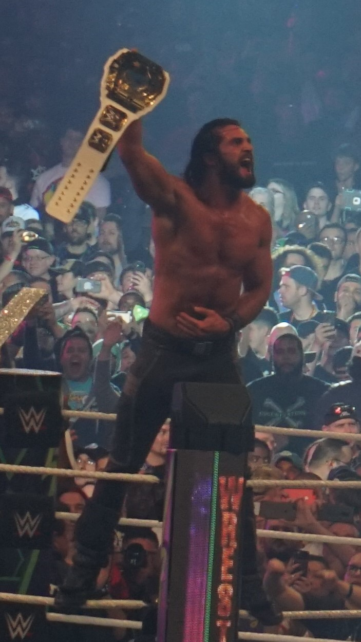 Seth Rollins after winning the WWE Intercontintal Championship at WrestleMania 34.